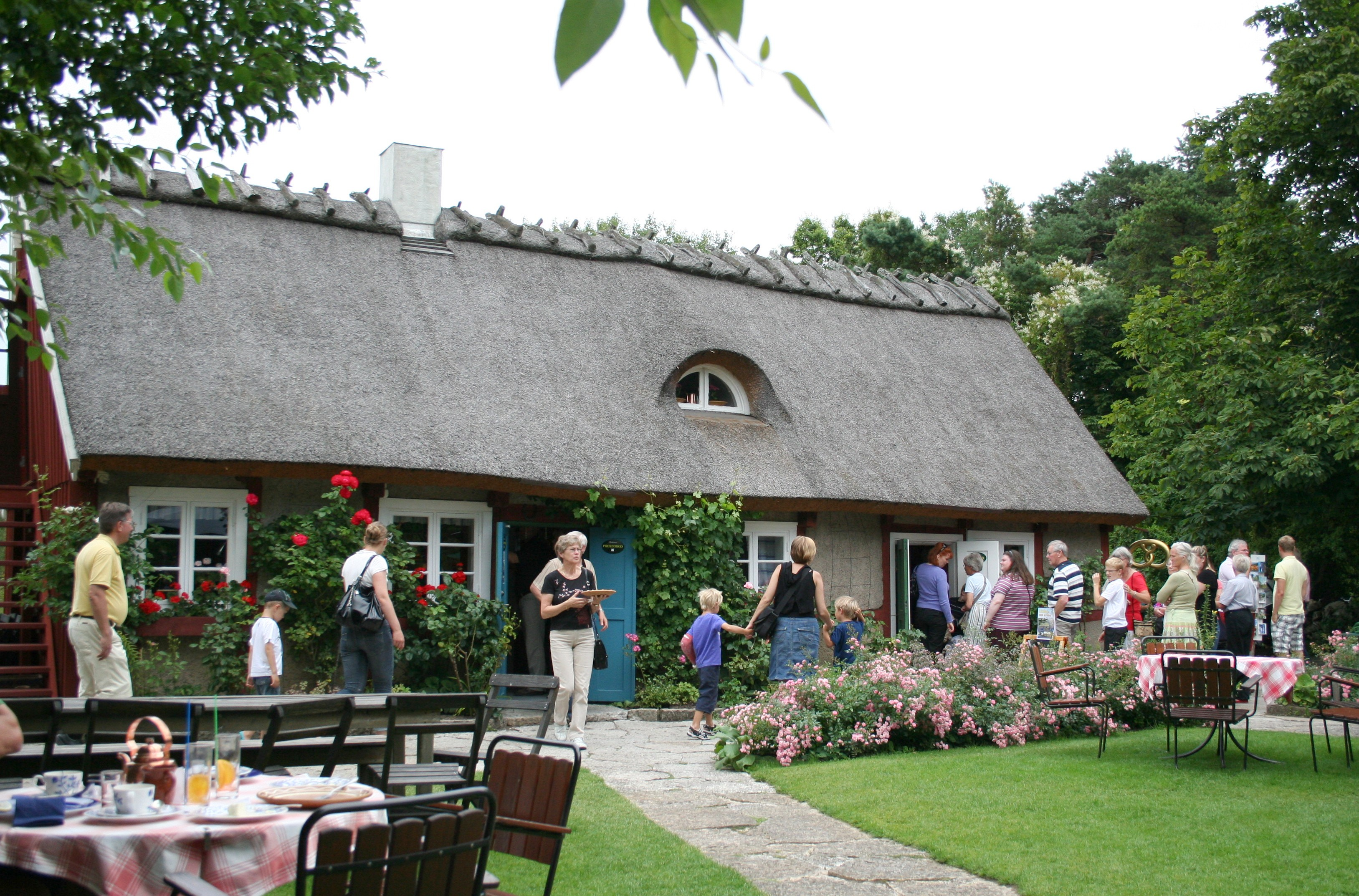 Flickorna Lundgren, Skäret, Höganäs, Sweden